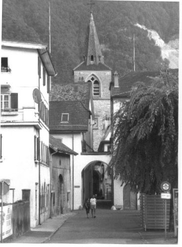 Image of a street in Villeneuve, (the one on the shores of lake geneva!) The author of this image is Oliver White, Photography page who uploaded this image. I've put it under CC license, but let me know if you need any additional freedoms. Ojw 15:52, 5 Dec 2004 (UTC)